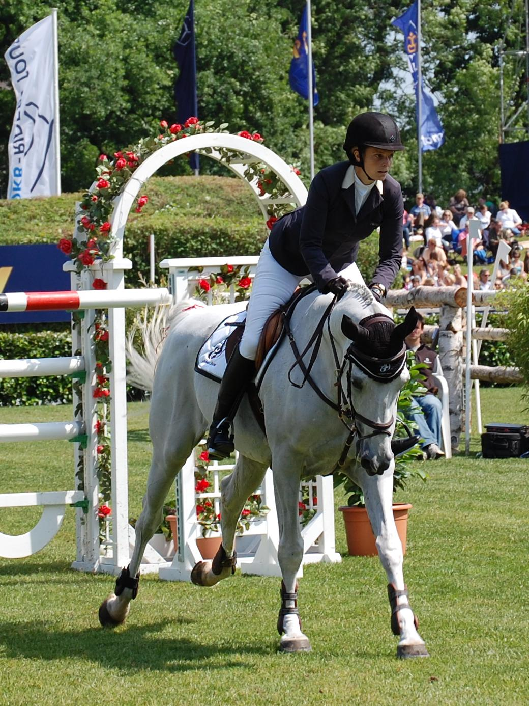 Athina Onassis de Miranda with AD Crosshill, "Championat von Hamburg", CSI 5* Hamburg 2011